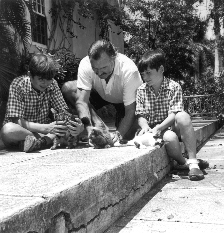 American Author Ernest Hemingway with sons Patrick (left) and Gregory (right) with kittens in Finca Vigia, Cuba.